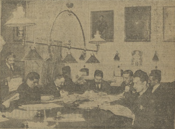 Sala de redacción de El Correo Catalán